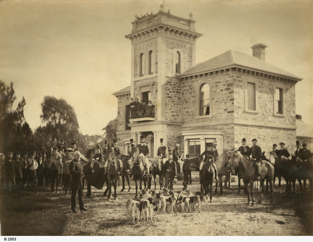 'The Brocas', built by John Newman in 1840, is one of the best grand country residences of Adelaide, and is listed by the National Trust. This view shows a meet of the Adelaide Hunt Club on August 15th, 1870, soon after the completion of extensive renovations to the house. From left to right are: J. Newman [standing, holding his top hat], G. Dormer [the only lady riding, in a side-saddle], S. Ferry, A.J. Baker, H.E. Downer [the Master], F. Bonnin, F. Drew, R.F. Moore, C. Colley, P. Auld, W. Pope and H. Trew. Hounds are grouped in the foreground